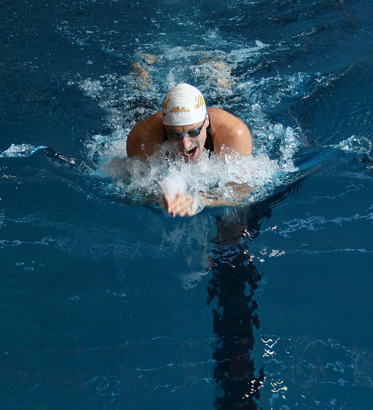 Austrian swimmer Maxim Podoprigora at the 7th International Viennese Swimming-Championships at the Wiener Stadthalle.